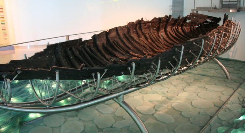 The 'Sea of Galilee Boat' housed in the Yigal Alon Museum in Kibbutz Ginosar, Tiberias, Israel.